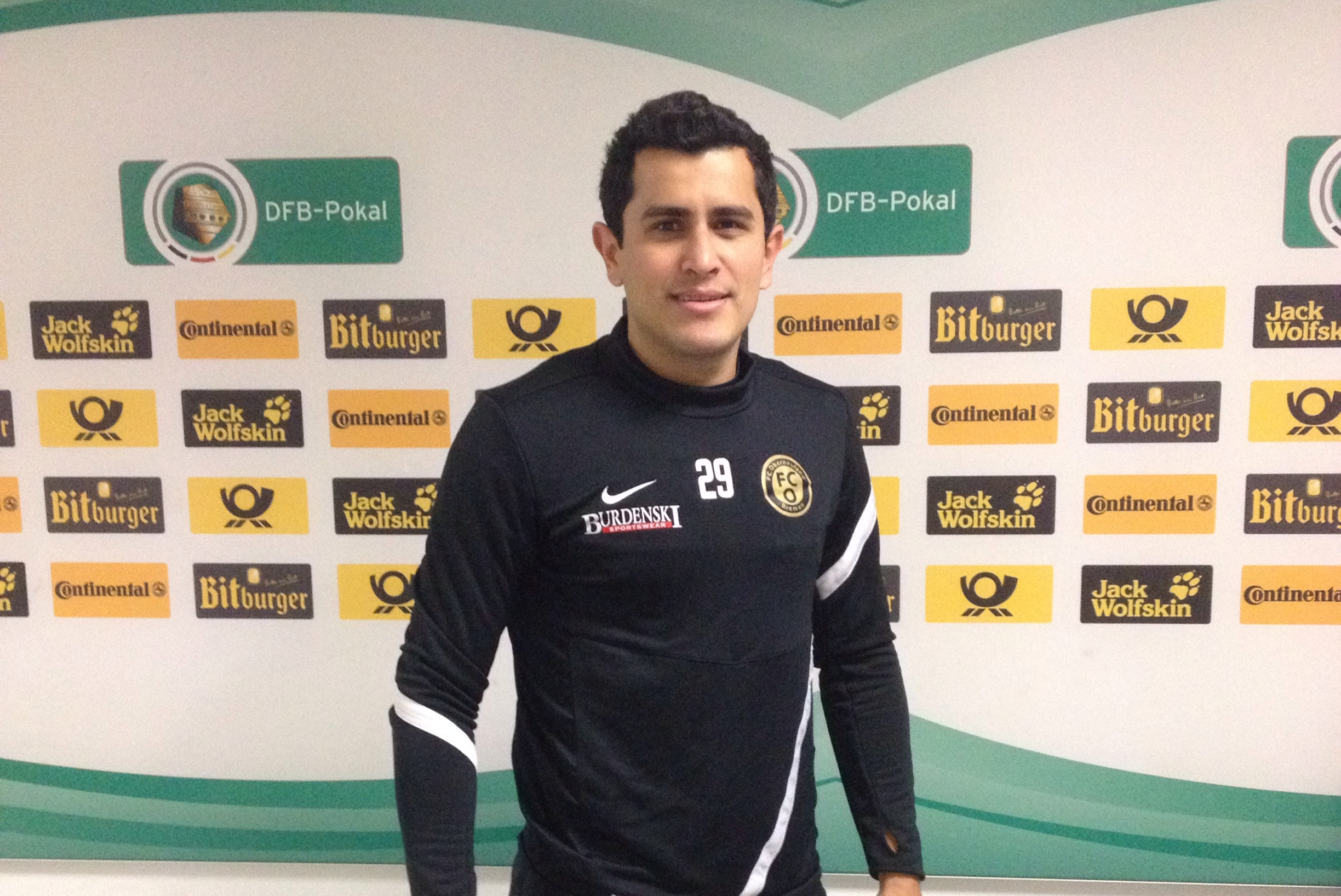 FCO Germany